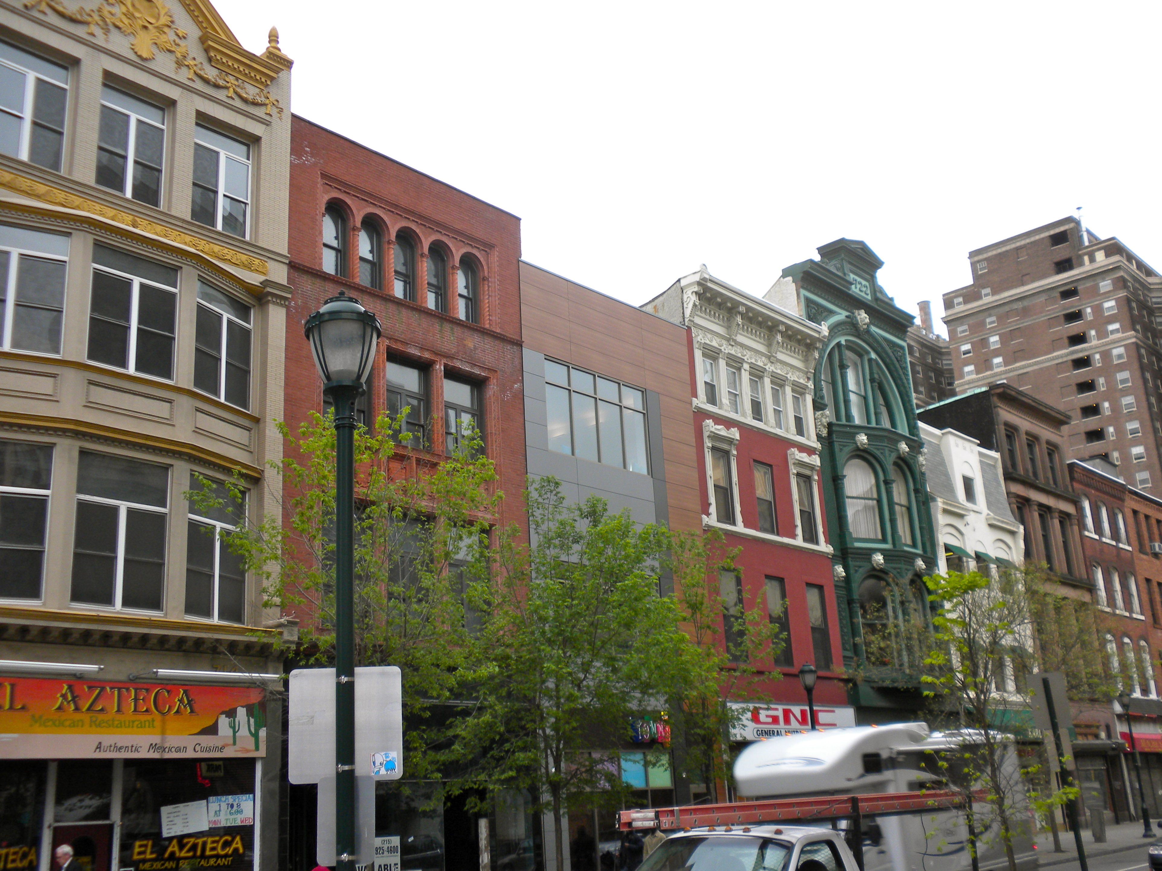 South side of the 700 block of Chestnut Street in Philadelphia. (Green Building is 722) This is part of the fairly large East Center City Commercial Historic District on the NRHP since July 5, 1984, on the eastern edge. The Historic District is roughly bounded by 6th (on the east) , Juniper (west), Market (west) and Locust Streets (south) in (and overflowing) the Washington Square neighborhood. Coordinates below are for 722 Chestnut. Coordinates given by NRHP for the district are 39°57′5″N 75°9′33″W